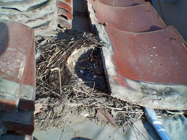 Nest of Passer montanus — under roof tiles, in Japan. 撮影データ (Data) 撮影地 (Place): 関東地方, Kanto region 撮影年月日 (Date): 2005年08月30日 (08:47@JST, 30-Aug-2005) 撮影者 (Photographed by): Koba-chan ライセンス (Licence): GFDL, cc-by-sa-2.5 備考 (Contents): 木造家屋の屋根瓦の狭い空間に作られた直径5-6cm、深さ4cm程度の椀状に凹んだ巣。卵の長径は1.5cm、短径は1cm程度で色は薄い茶色がかった灰色。巣の材質は主に枯草。瓦1枚の寸法は約30cm。 This is a photograph of a Sparrow's nest, made under the small space of the roof tiles of a wooden house in Japan. The bowl-shaped nest has a diameter 5-6cm and a depth of approximately 4cm. The eggs are lightish-brown to grey in colour, and are 1.5cm in diameter at the head and 1cm at the short end. The nest is mainly made of grass. The size of a roof tile is about 30cm by 30cm. See also. Image:Nest of Passer montanus A.jpg, Image:Nest of Passer montanus B.jpg, Image:Nest of Passer montanus C.jpg